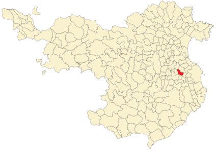 Verges